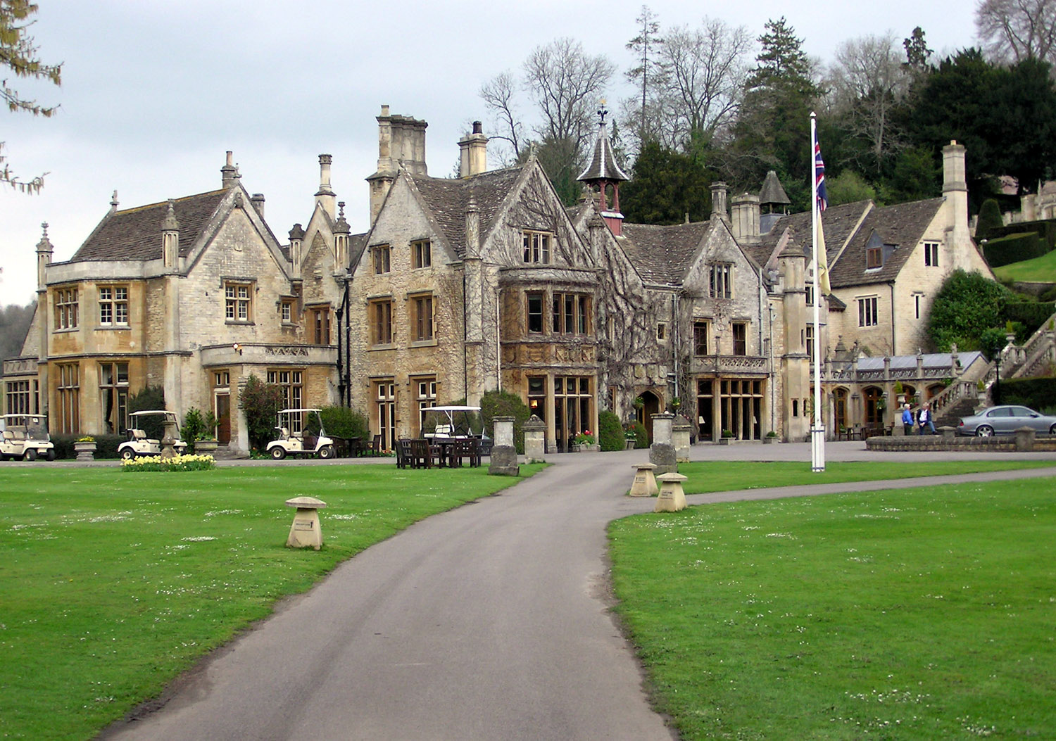 The 4-star Manor House Hotel at Castle Combe. Built in the fourteenth century, the hotel has 48 rooms and 365 acres (1.5 km²) of gardens. Photographed by Adrian Pingstone in August 2004 and released to the public domain.